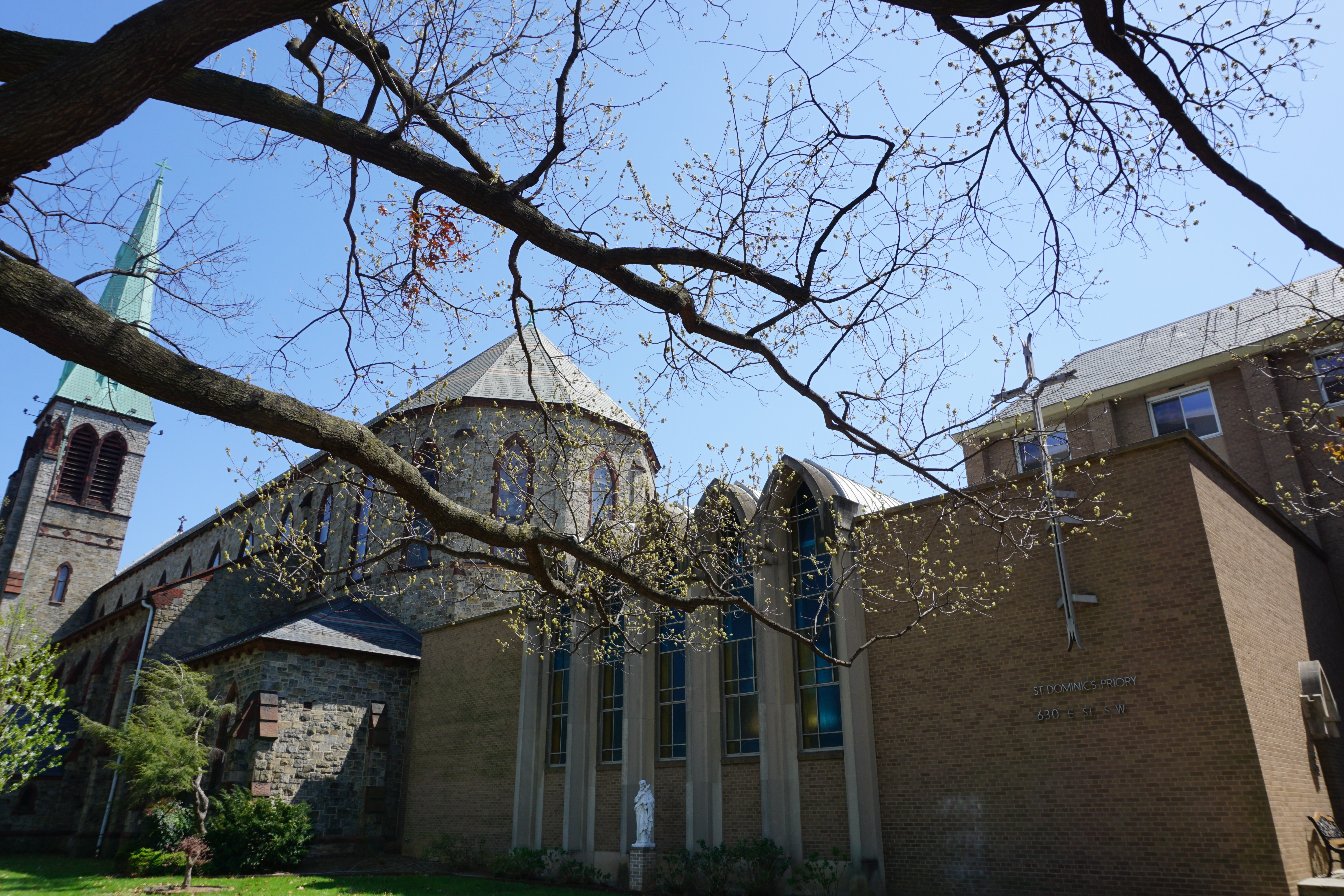 Friars Chapel of St. Dominic Church in Southwest Washington, DC